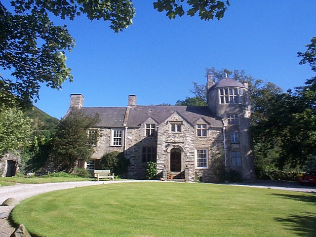 Pen y Bryn Manor, Aber (originally known as Garth Celyn, Aber Garth Celyn). Parts of Ty Hir, the medieval house, the thirteenth century home of the two Llywelyns, still remain, converted into an Elizabethan manor house. The tower dates from c. 1200.